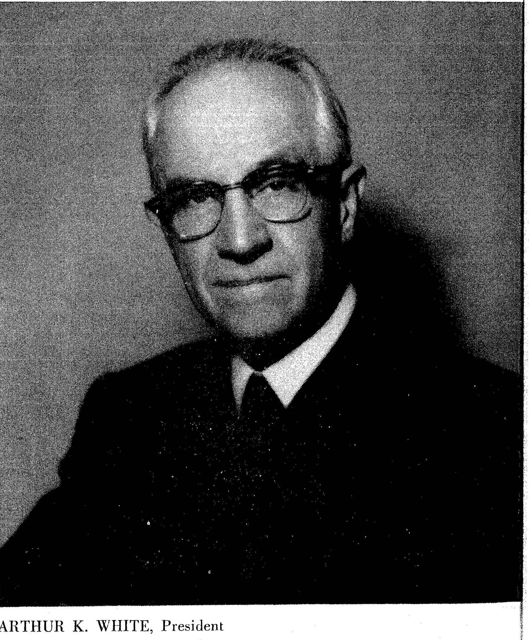 Arthur Kent White circa 1965